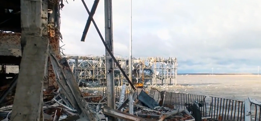 Ruins of Donetsk Sergey Prokofiev International Airport, December 24, 2014.